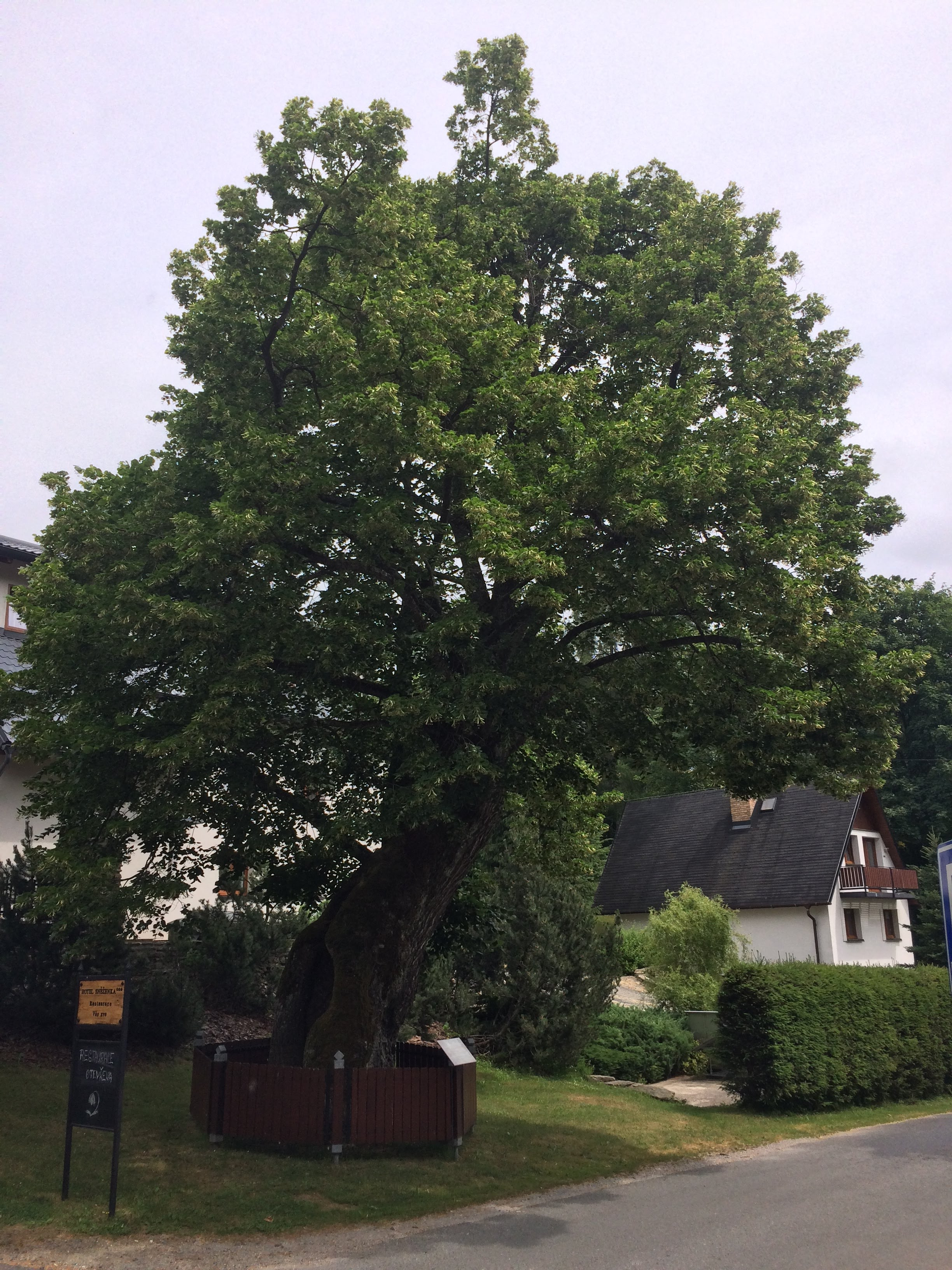 This small-leaved Linden (Tilia cordata) was planted around 1540 in front of the former farm of Albert Lachnit. The tree was struck by the lightning, causing the tree to split, in 1958. By 1966, there were almost remainings of the tree (hollow trunk). One branch was still alive and the tree started to regenerate.